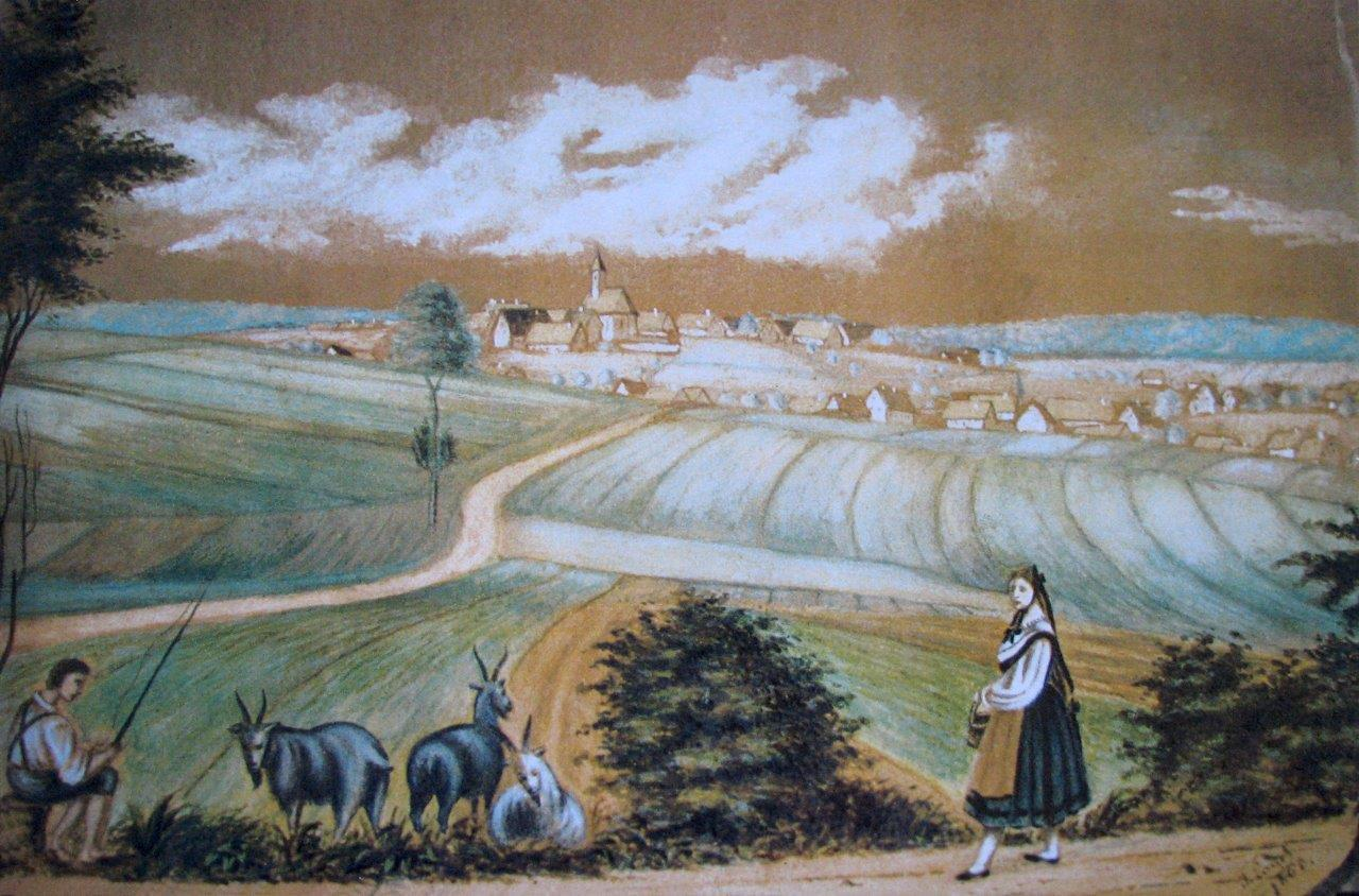 Zang from south-east